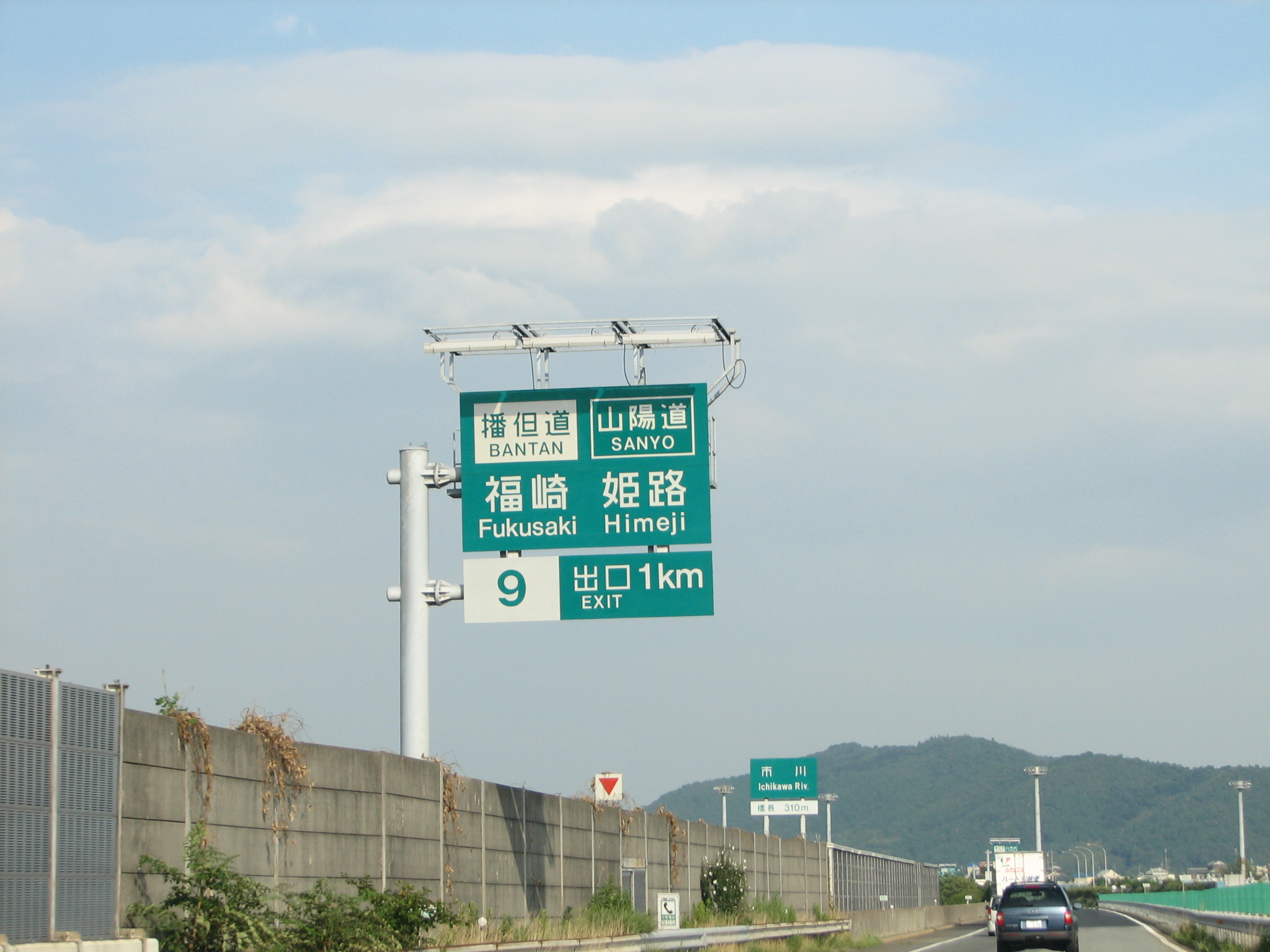 Fukusaki IC